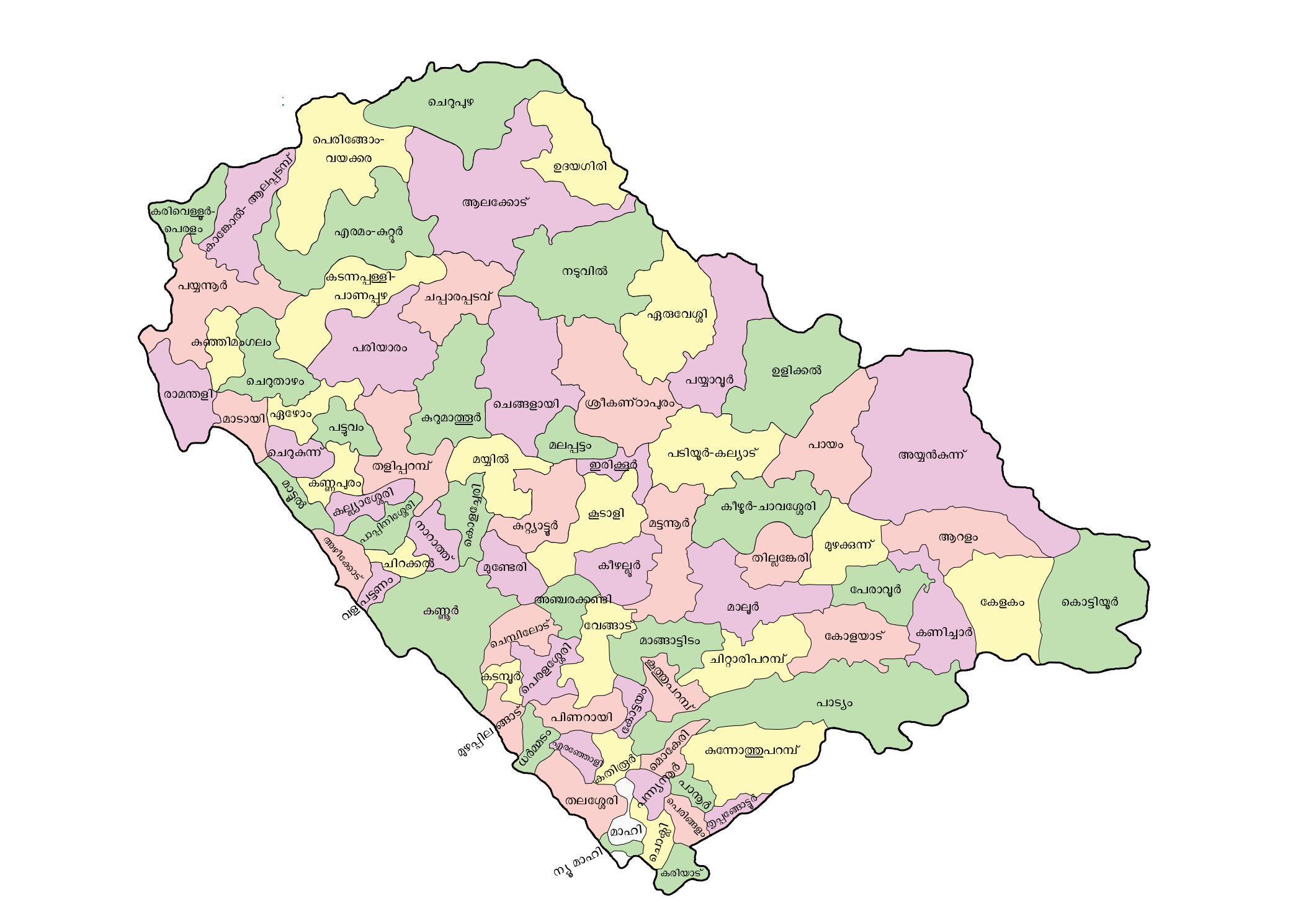 Kannur district map after formation of Corporation